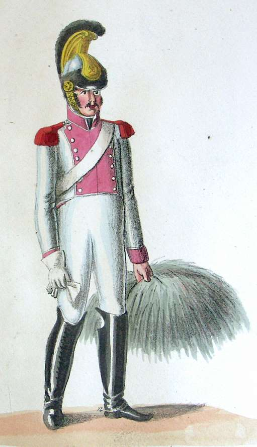 uniform plate